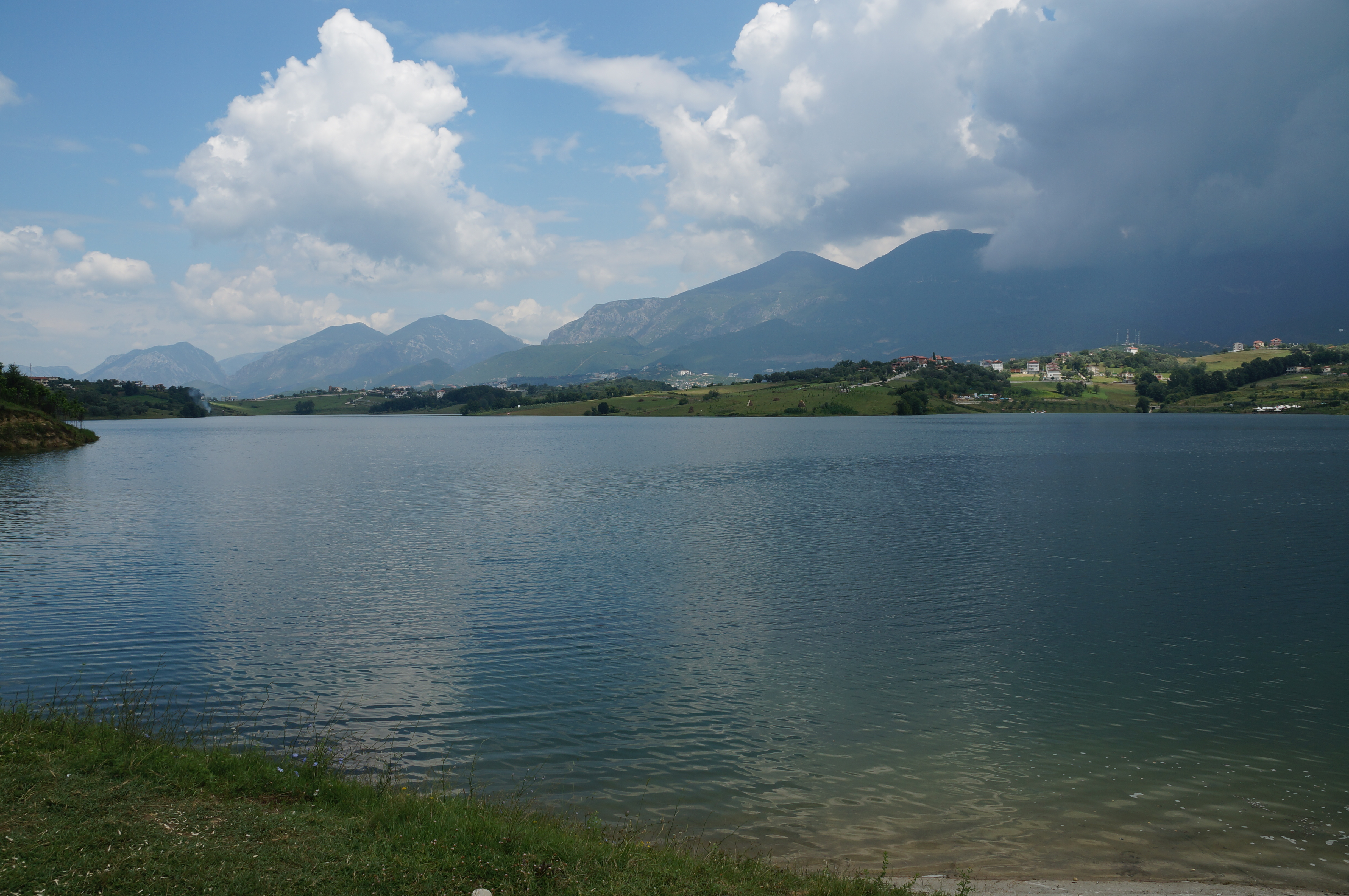 Farka Lake and Skanderbeg Mountains close to Tirana, Albania